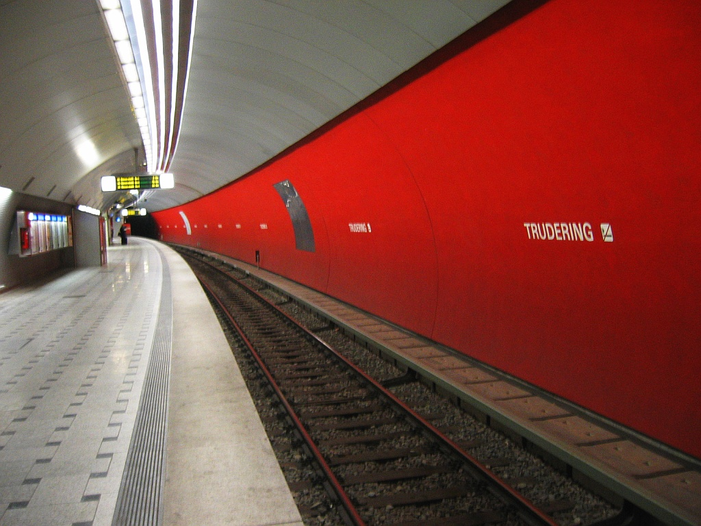 Munich subway station Trudering (line U2)